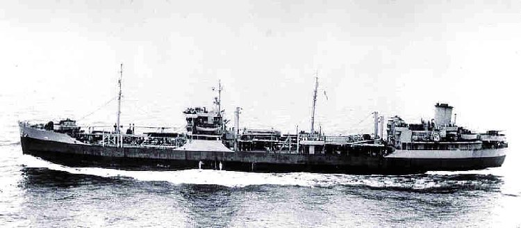 Picture of the fleet oiler USS Chepachet (AO-78) taken between 1943 and 1946.